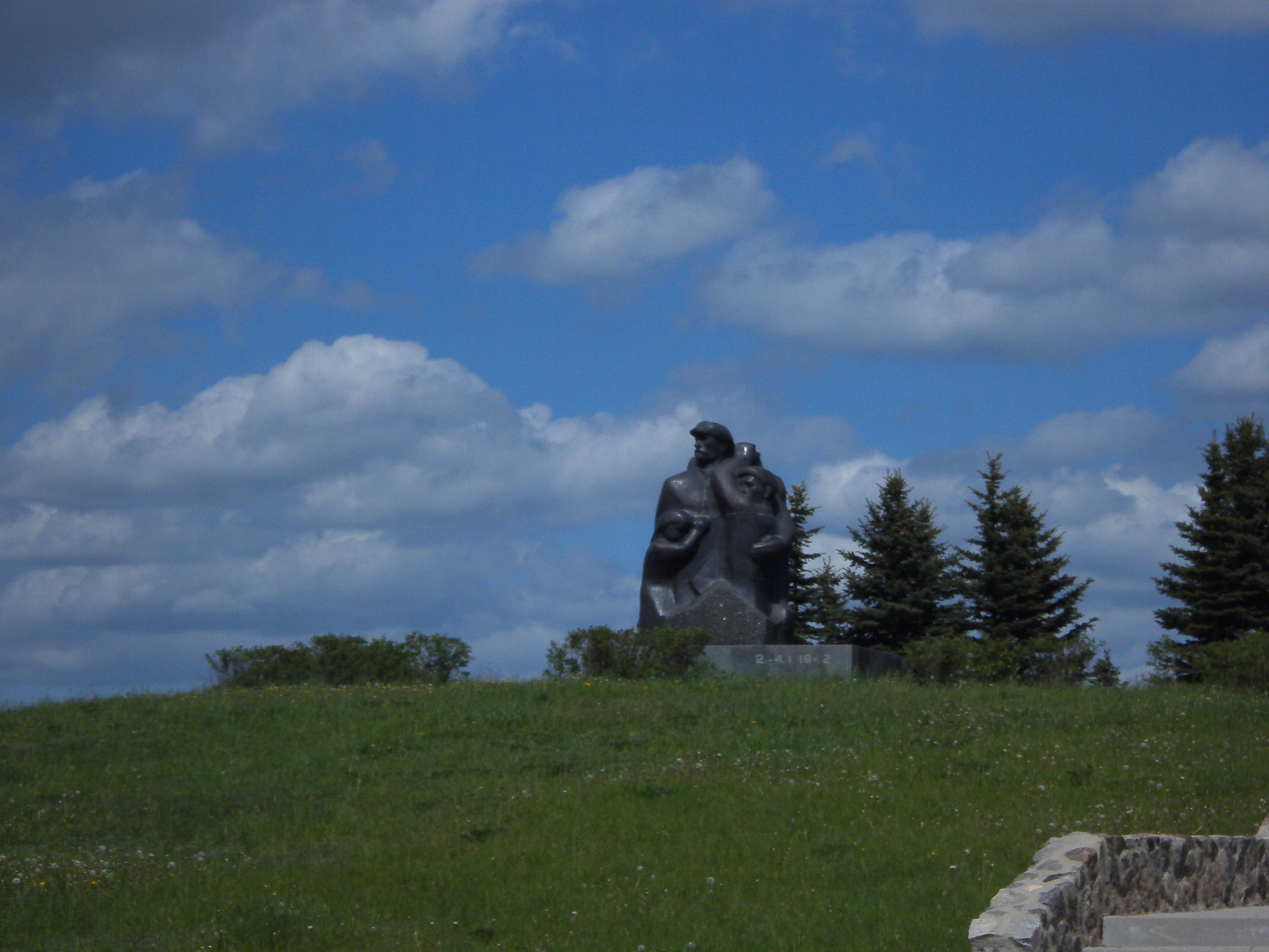 Memorial in Audrini, Latvia